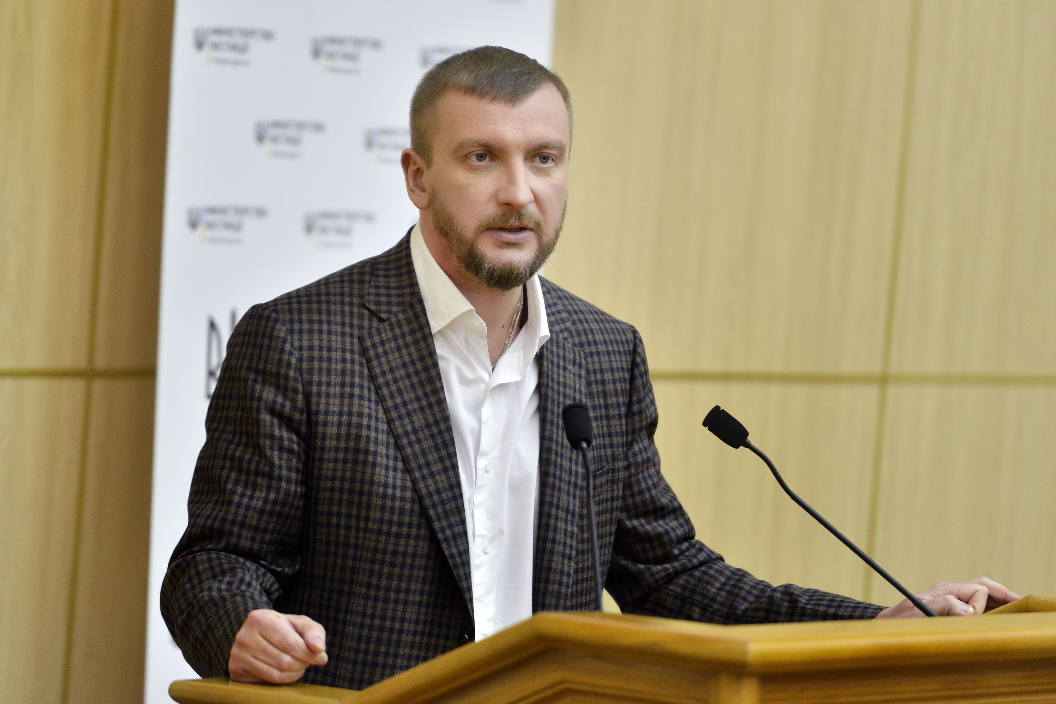 Pavlo Petrenko, 14th Minister of Justice of Ukraine (November 16, 2018)